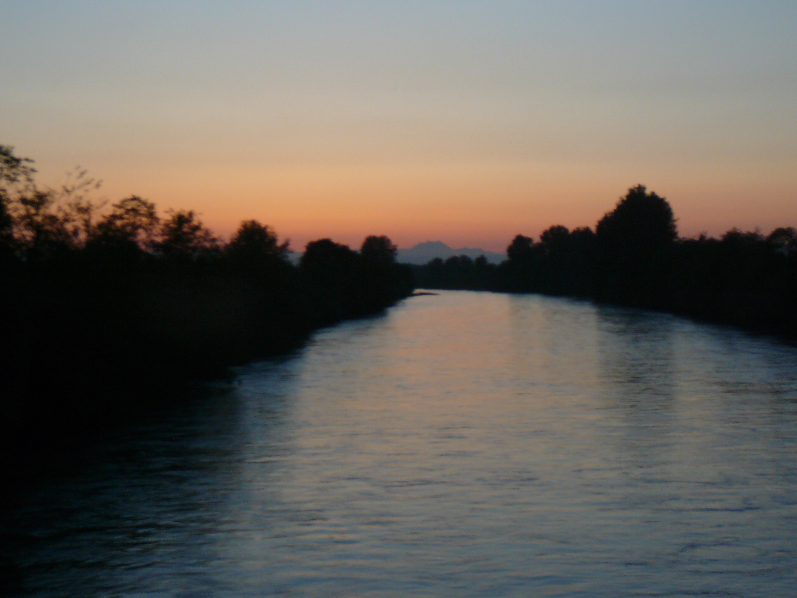 Puyallup River, looking northwest from the George Milroy Bridge at 66th Avenue East